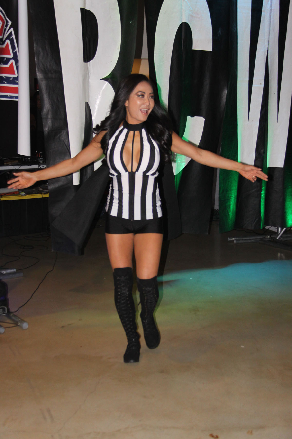 River City Wrestling RCW on February 22, 2019 in San Antonio with Gail Kim, Scarlett Bordeaux, Rebel, Katie Forbes, Barbi Hayden, Christi Jaynes and more.